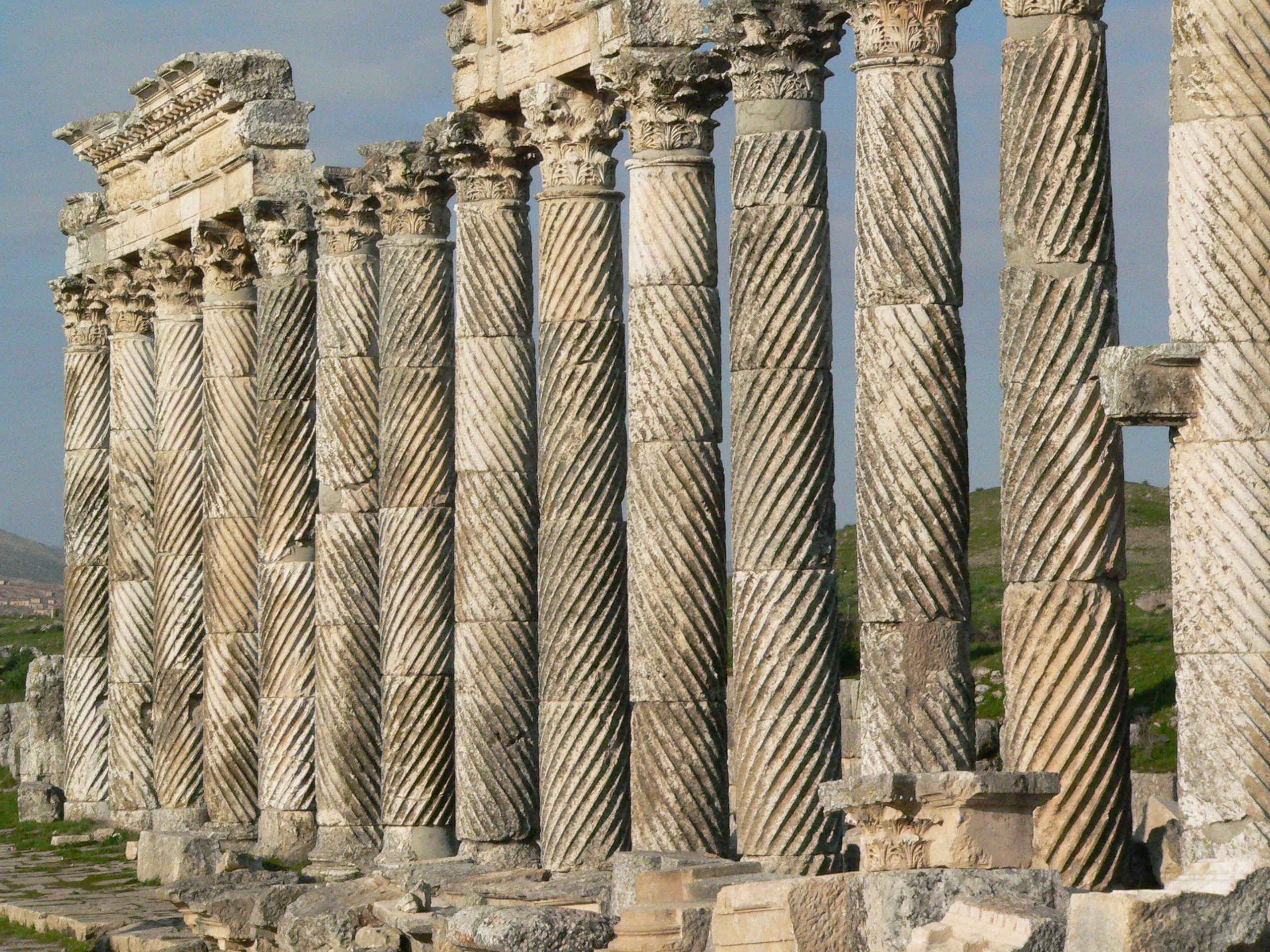 M Disdero February 2005